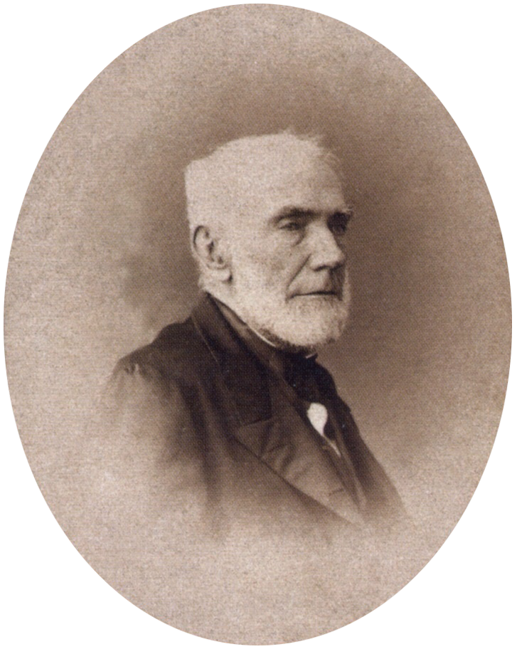 Pedro de Araújo Lima, Marquis of Olinda, c.1860. Located in the archives of the Brazilian Historic and Geographic Institute.